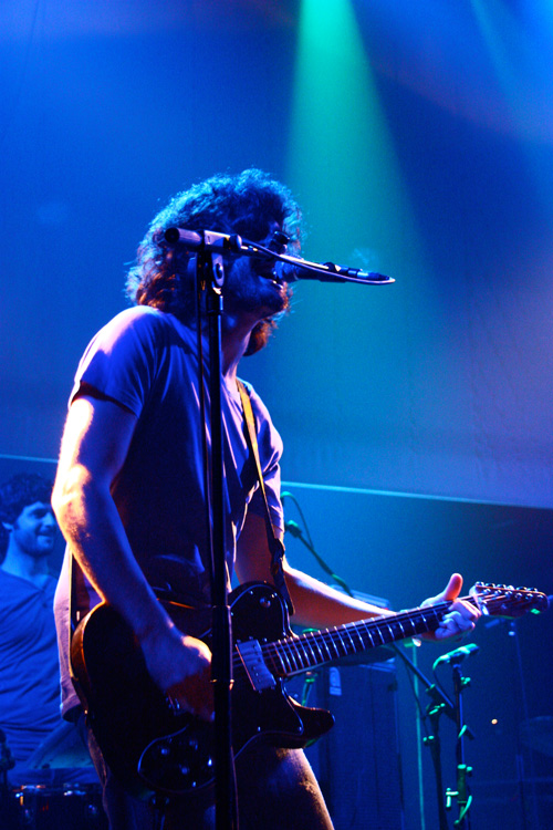 Guitarist of Spanish pop rock band Vetusta Morla